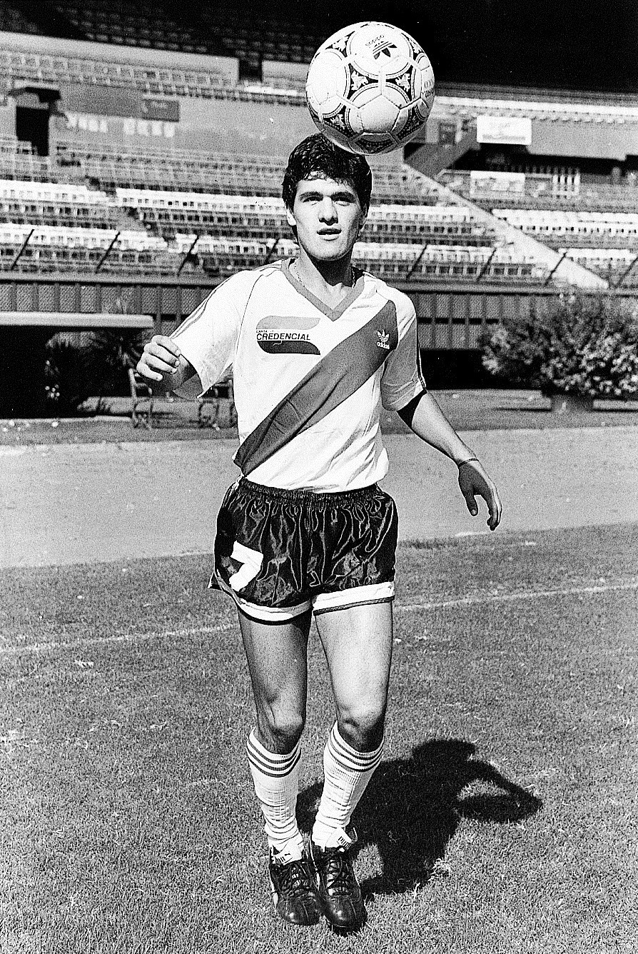 Ariel Ortega in 1991, playing in River Plate.